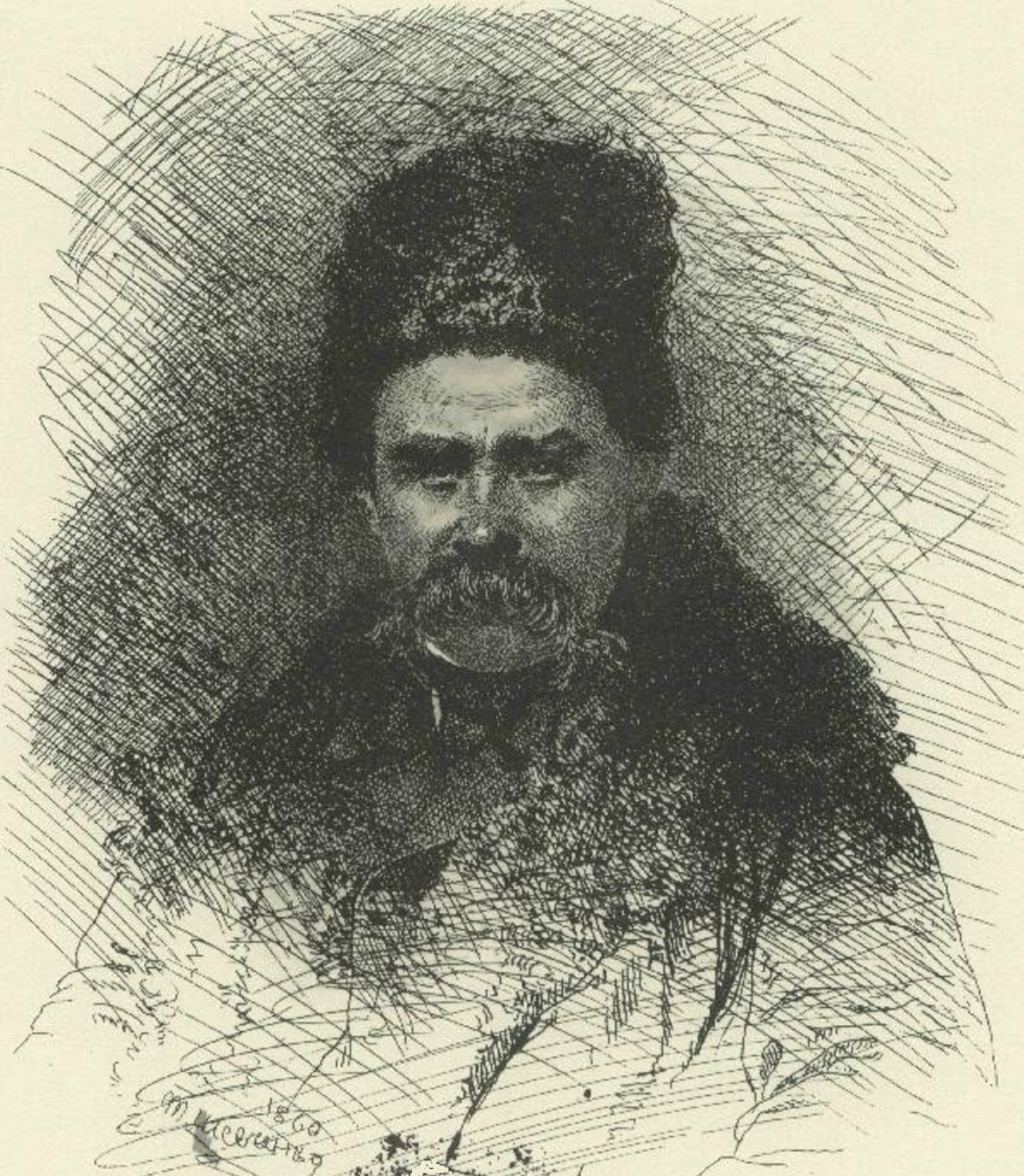 with bearskin cap, 1860.